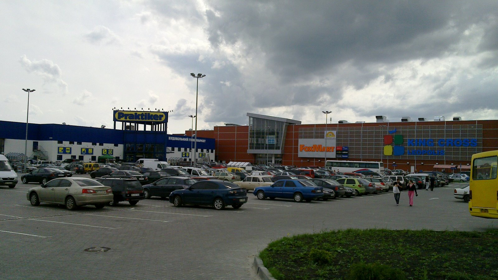 King Cross Leopolis trade center in Lviv, Ukraine